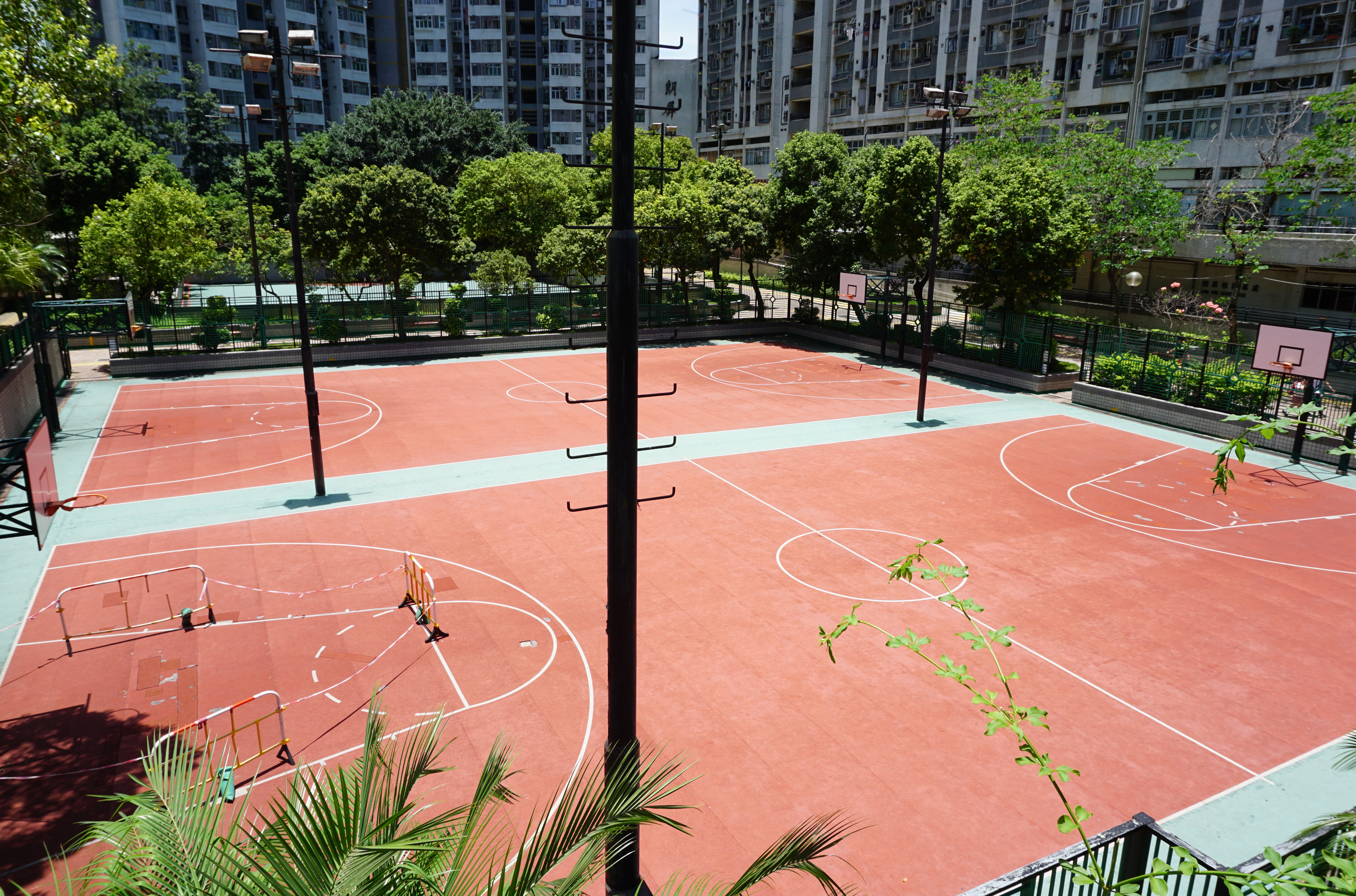 Long Ping Estate in Yuen Long, Hong Kong.